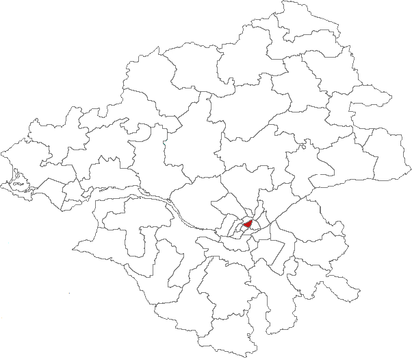 Map of canton of France : Canton de Nantes-1, Loire-Atlantique, France